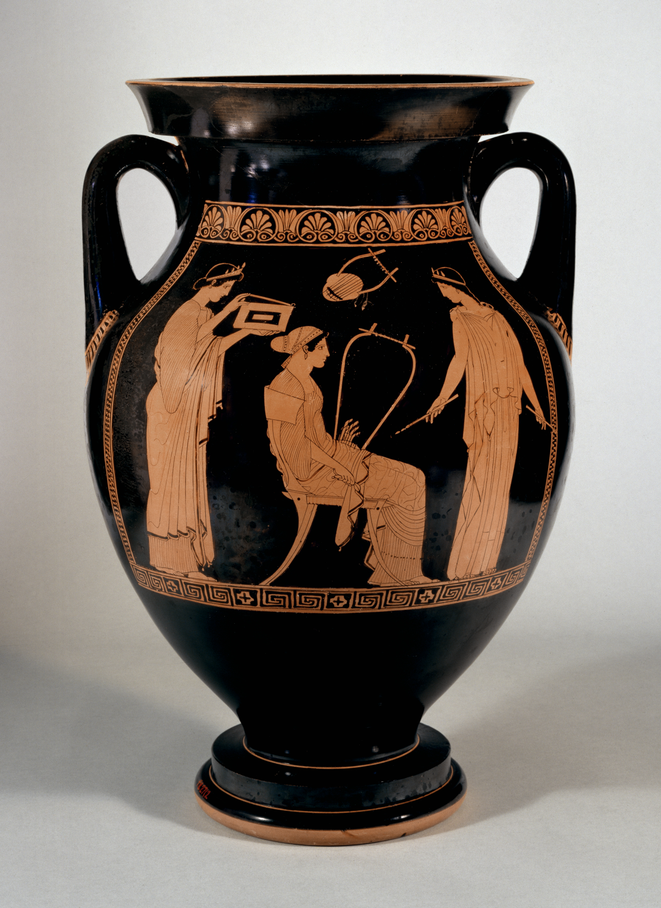 One of the prominent painters of classical Athens, the Niobid Painter (named after his most famous vase) is admired for his quiet and balanced compositions. Here, in the women's quarters of a house, three elaborately dressed women prepare for a music session. A seated woman relaxes while fingering a "barbiton" (a stringed instrument). Above her head hangs a lyre. She faces a woman holding double flutes, and a third woman lifts the lid of a box. The scene evokes the leisured and relatively educated world of affluent Athenian women. On the back, women dressed in the attire of maenads, the female followers of Dionysus, hold pine branches and a torch; these may be the same women, now preparing for their ritual roles in Dionysus' cult.